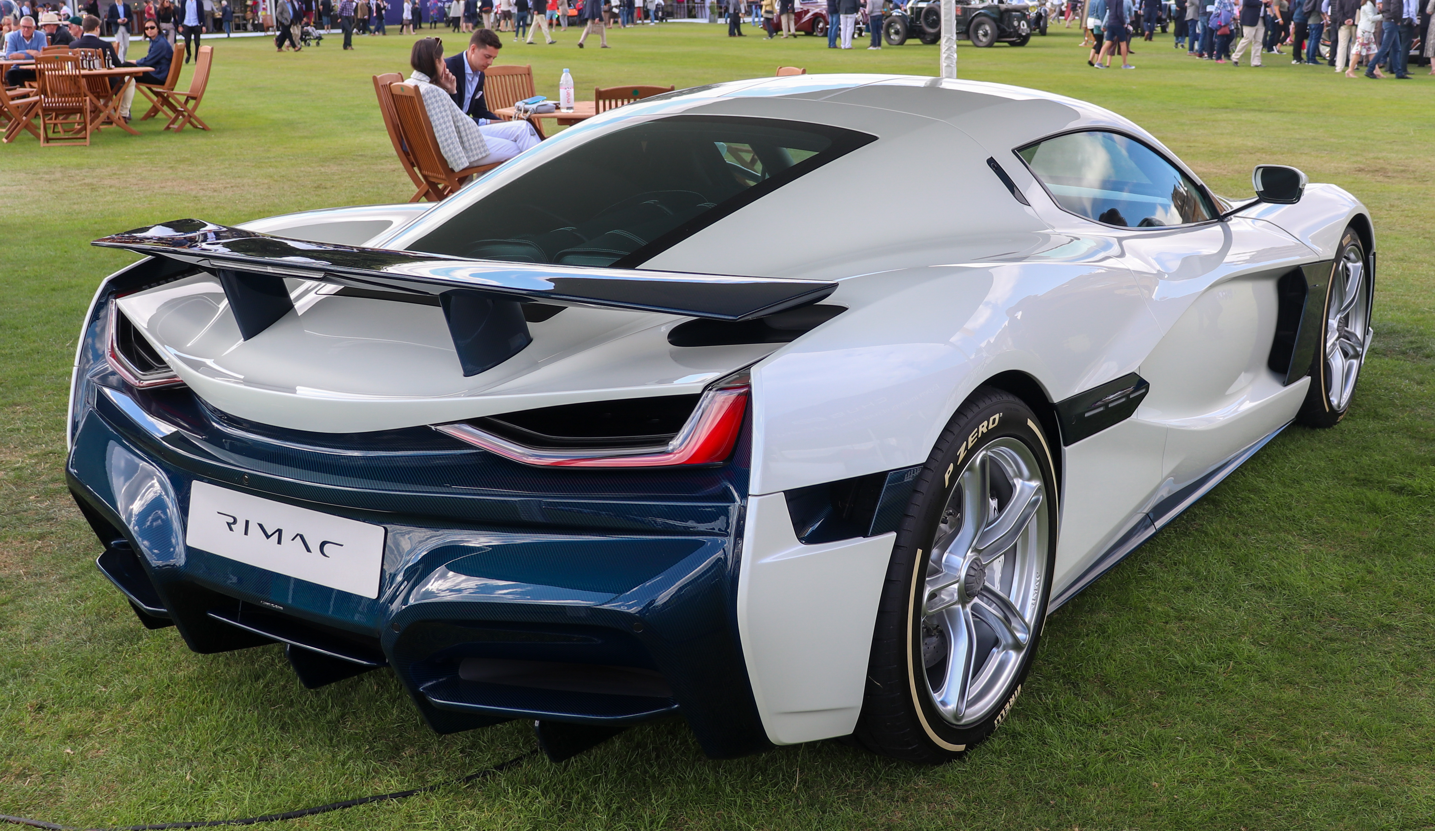 2019 Rimac C Two Rear Taken at the Salon Privé Concours d'Elegance Classic Car Motor Show 2019, Blenheim Palace